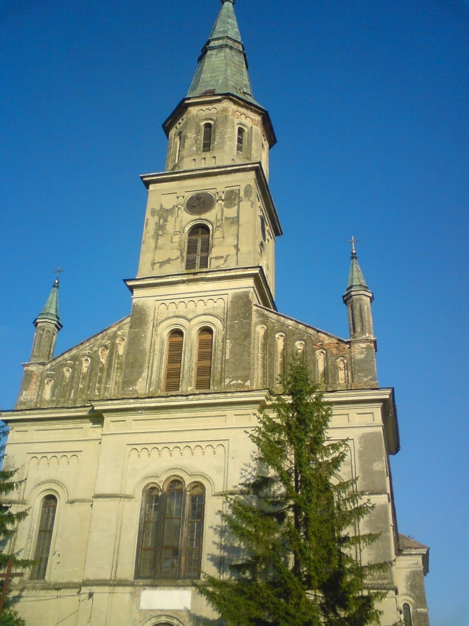 Roman Catholic Church of St. John the Baptist in Ečka, Vojvodina, Serbia.